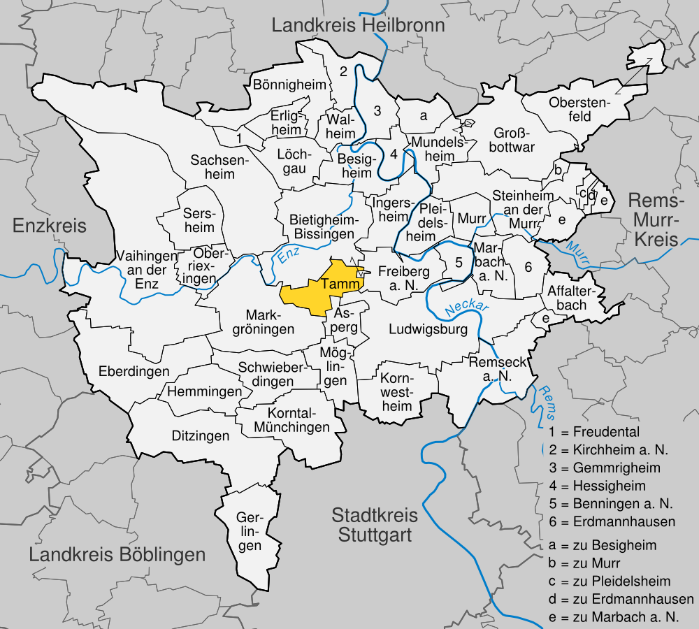 position of Tamm within distict of Ludwigsburg, Baden-Württemberg, Germany